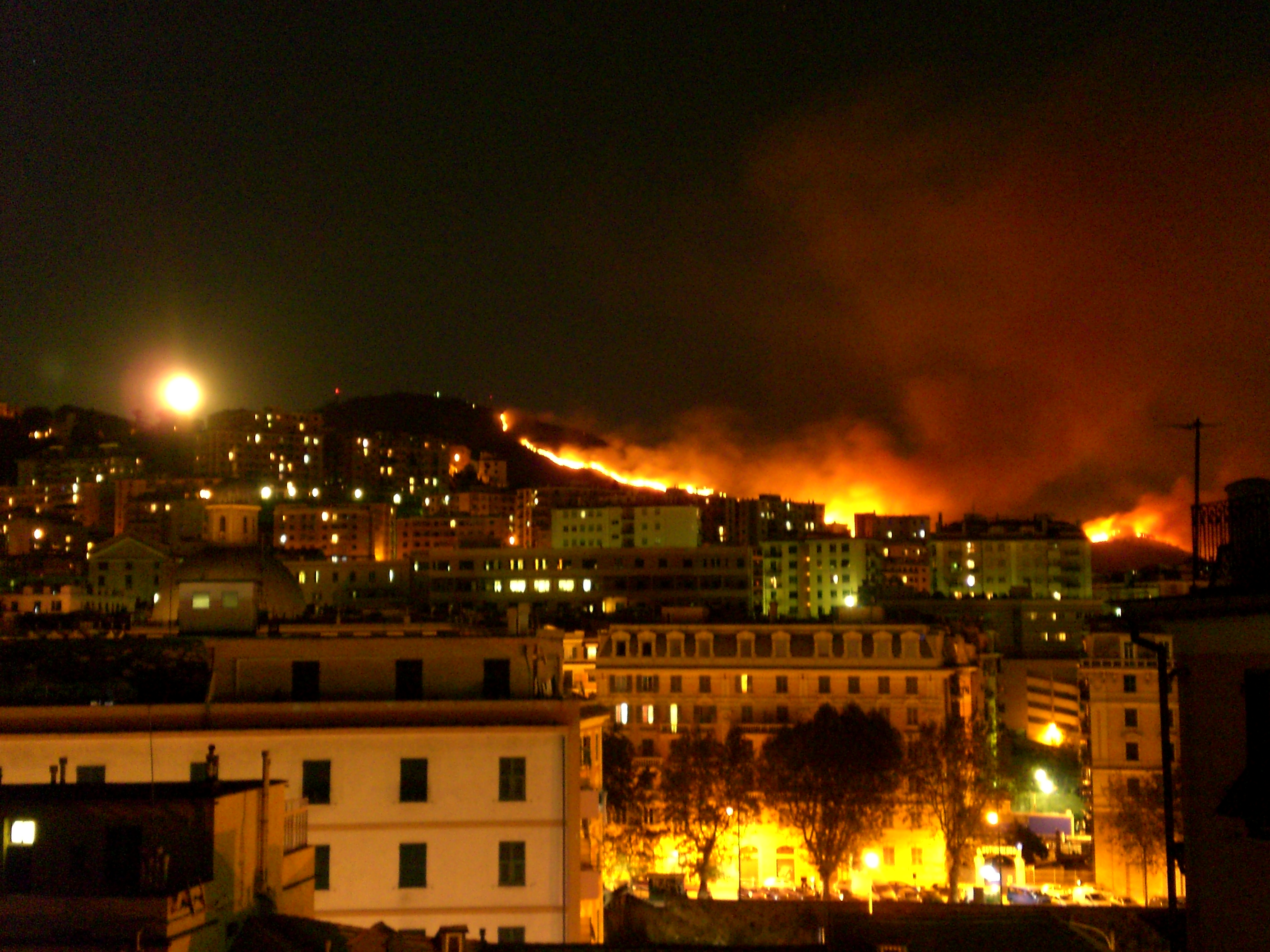 Bush fire close to the Italian city of Genoa in September 2009